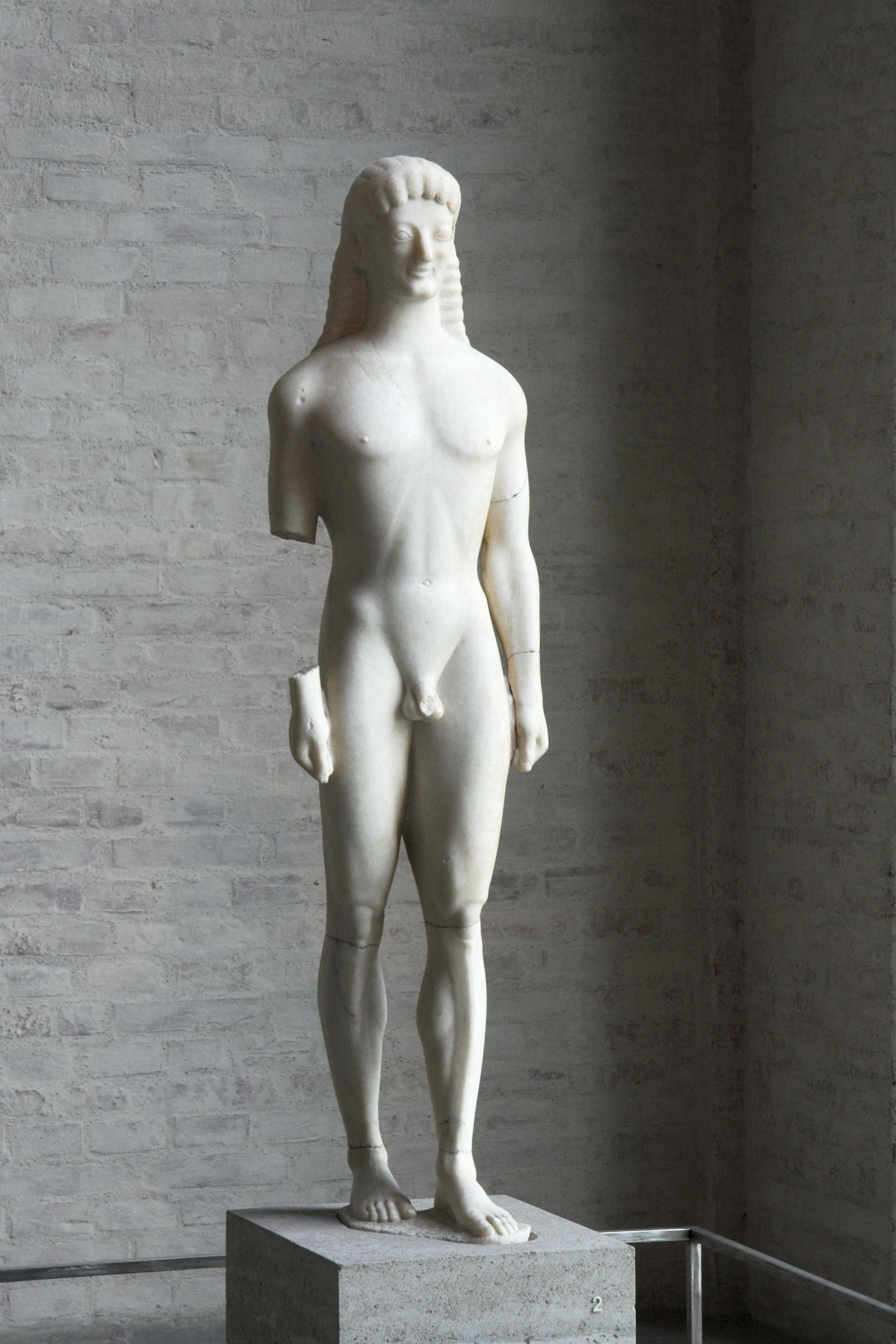 Kouros of Tenea, marble, around 560-550 BC. Found in the cemetery of the ancient city Tene (near Athikion, between Corinth and Mycenae) in the Peloponnese. Glyptothek Munich, Inv. N. 168.